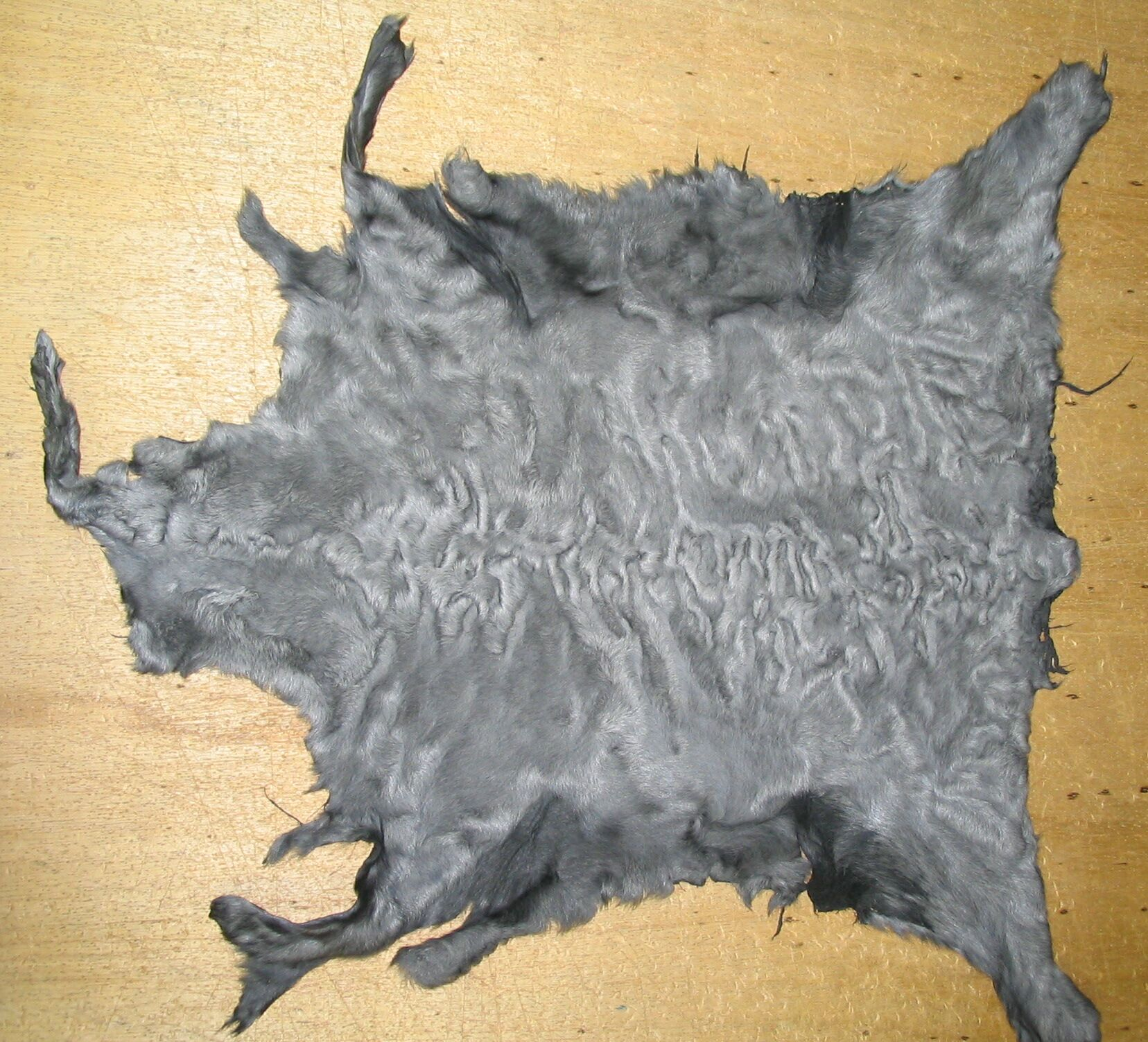 Indian lamb(skin, coloured)